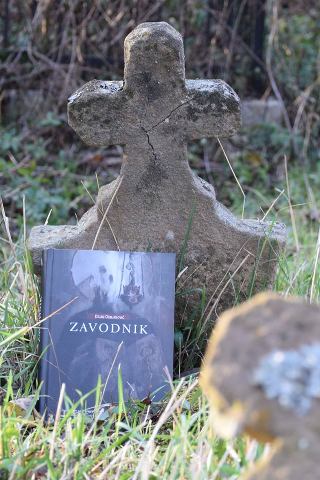 Zavodnik